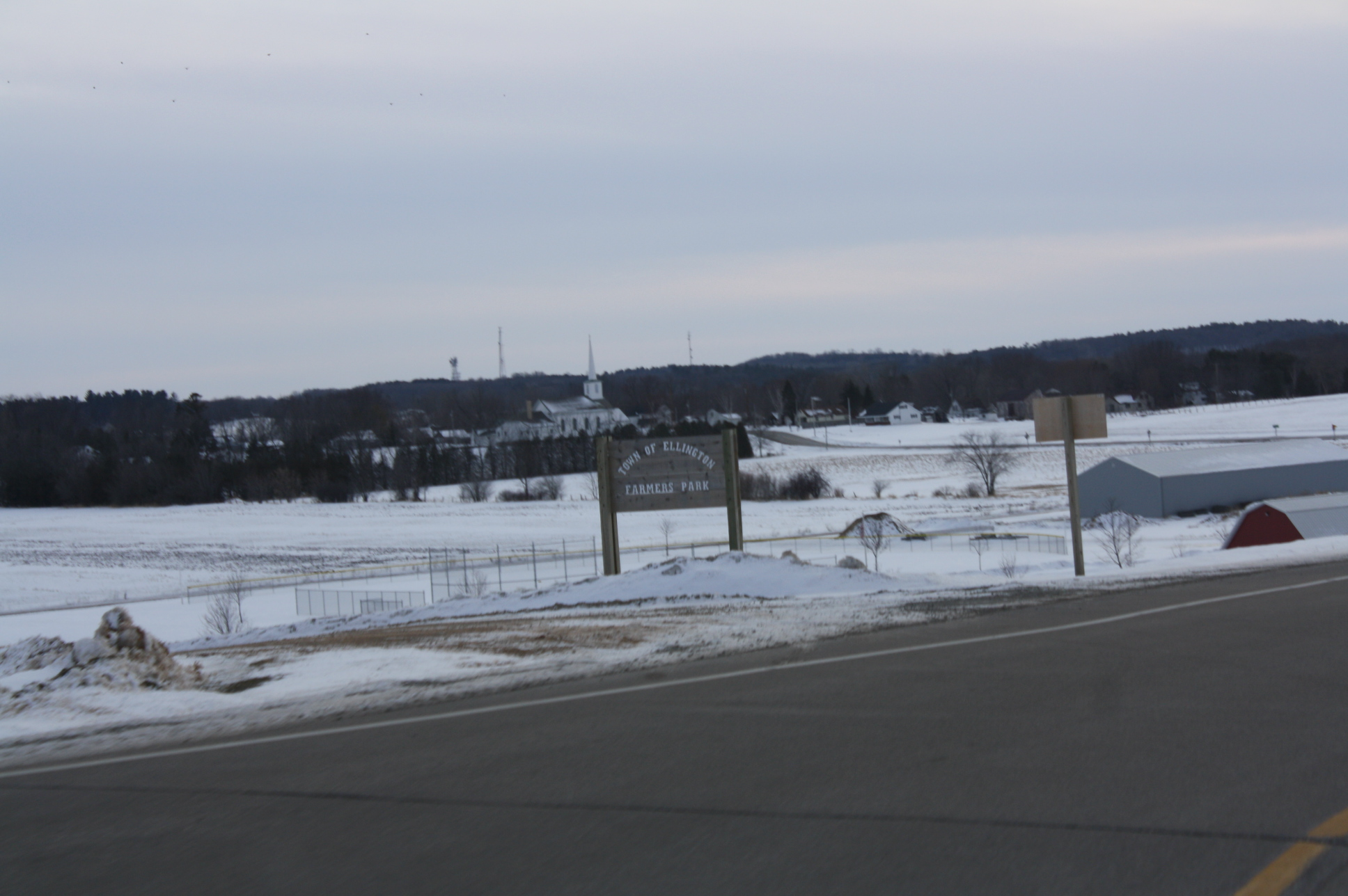 Looking from an overlook of rural Ellington, Wisconsin on Wisconsin Highway 76.